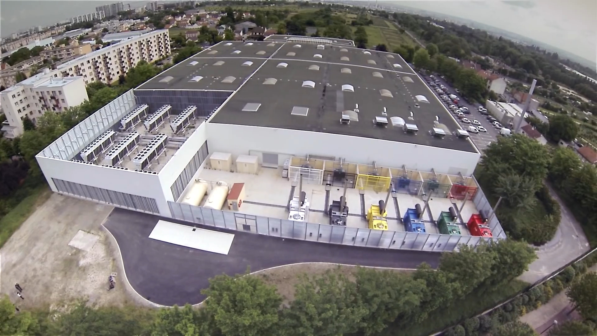 Aerial view of the Online DC3 datacenter in Vitry-sur-Seine.